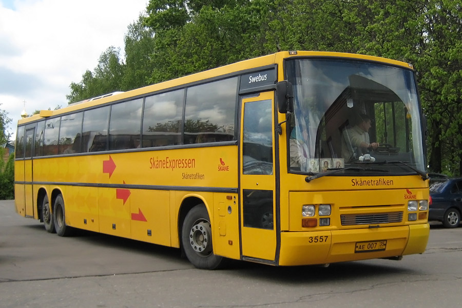 Carrus Fifty bus on chassis Scania K113TLB, ex Swebus 3557.